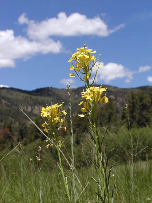 Erysimum asperum at Great Sand Dunes National Park, Colorado, USA